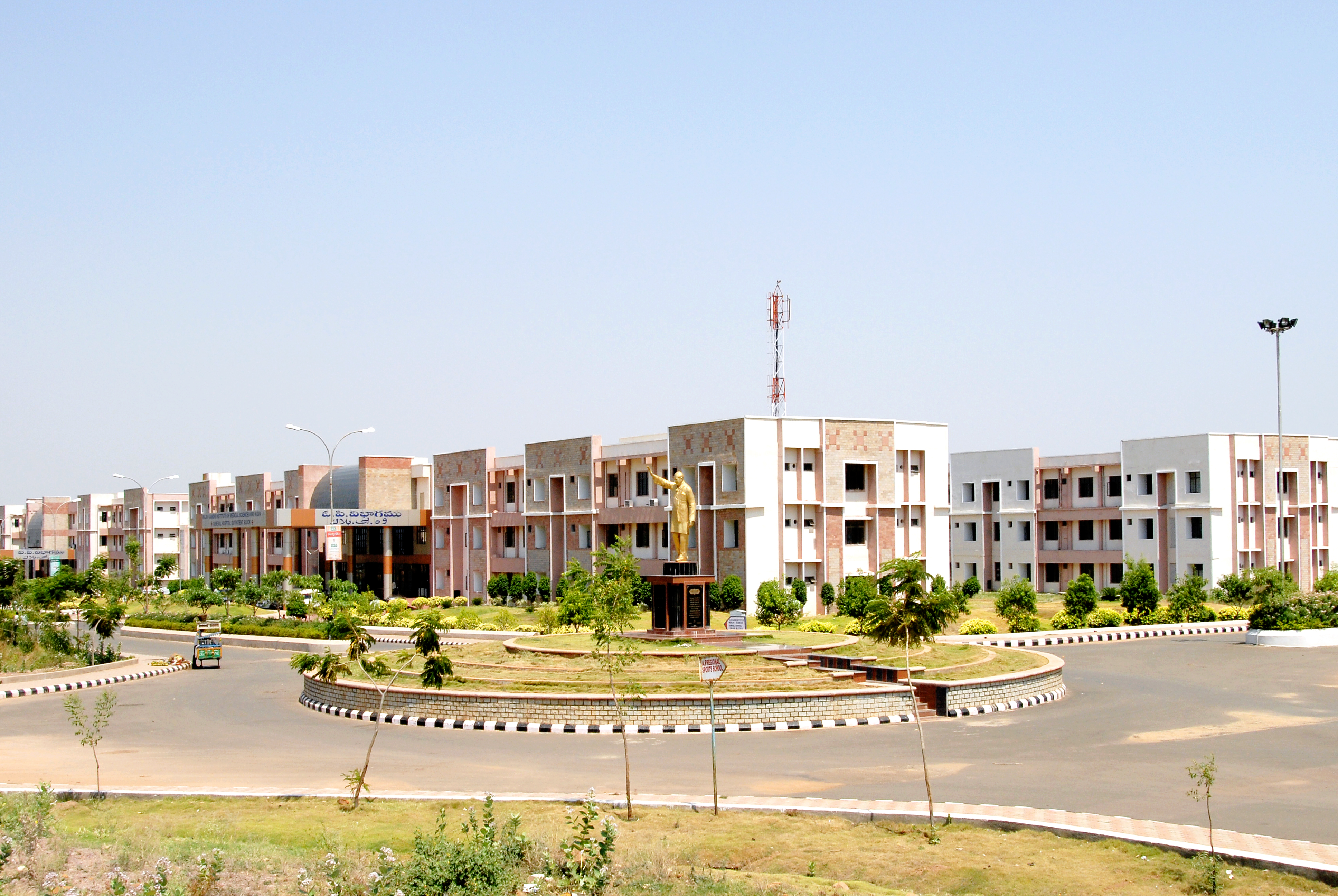 side view of hospital op building